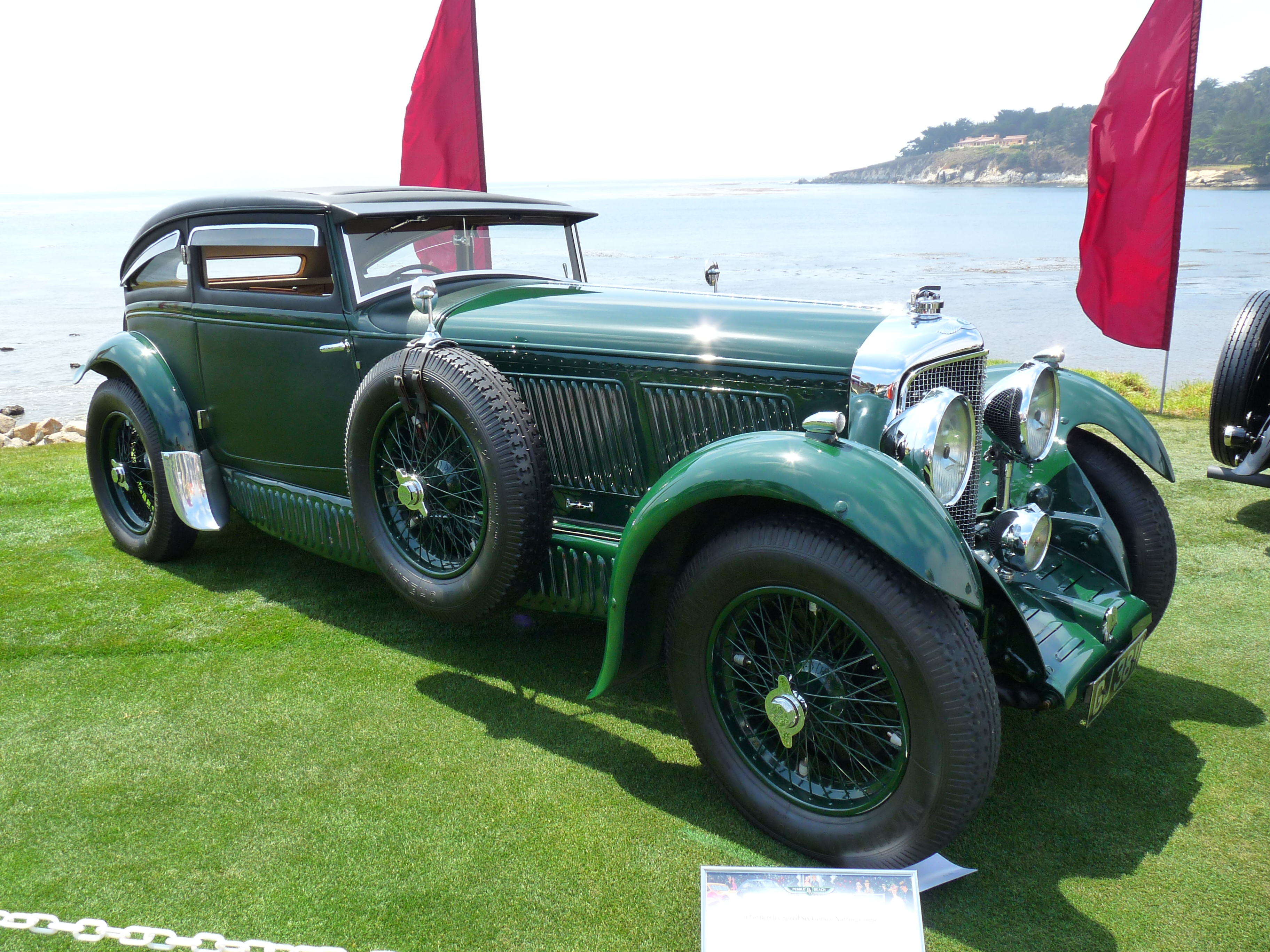 1930 Bentley Speed Six Nutting Coupe (Train Bleu) at 2009 Pebble Beach Concours d'Elegance. Bentley Speed Six coupé Weymann body by J Gurney Nutting 1930 Original coachwork Chassis HM2855 11ft 8½inches wheelbase Engine HM2863 Speed Six Reg GJ 3811 delivered May 1930 first owner Woolf Barnato. Not the "Blue Train" car it was long thought to be because it was delivered too late source of info